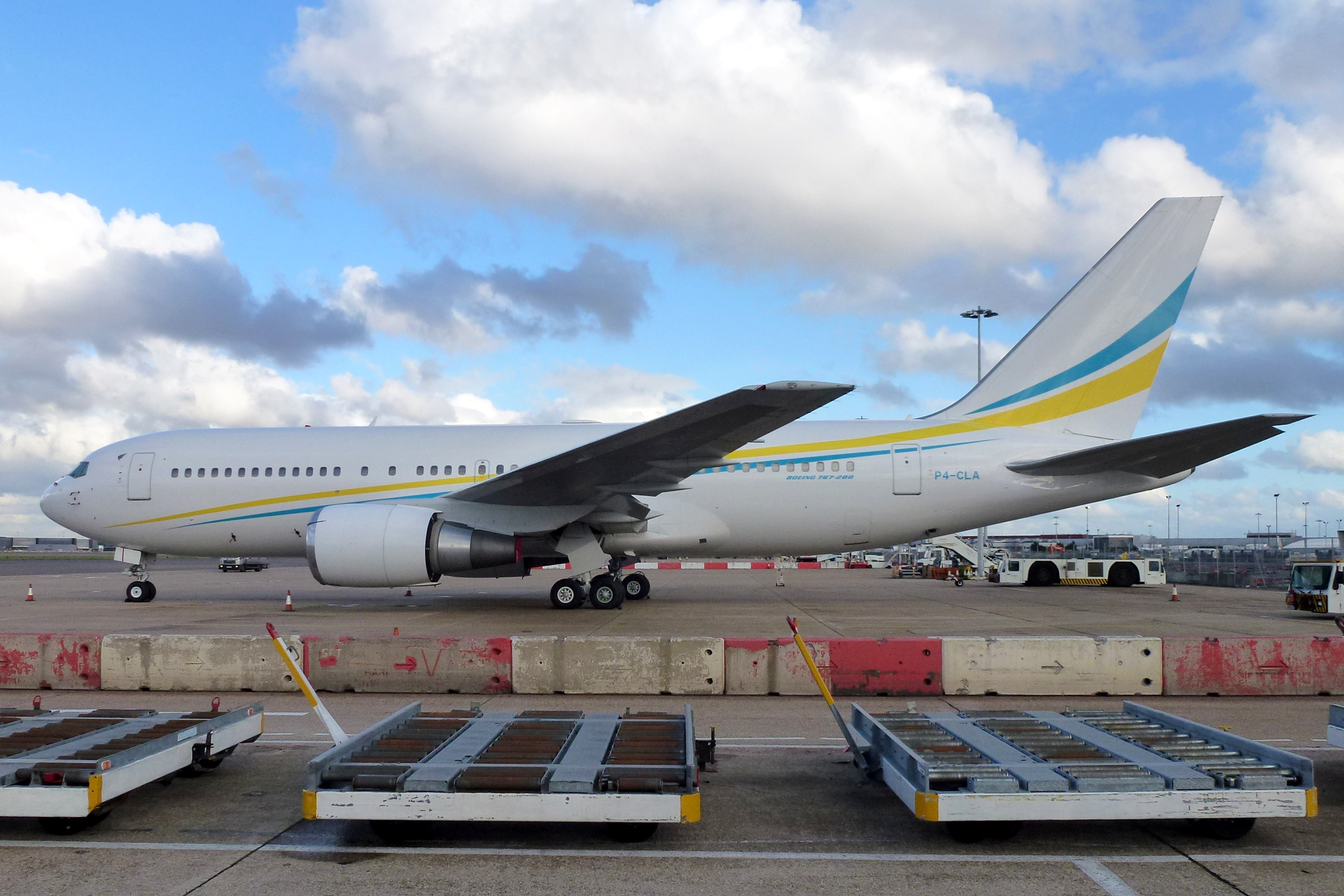 P4-CLA Boeing 767-2DXER belonging to Comlux Aruba on std 606, she has visited before as UN-B6701 of Khazikstan Govt.in 2006.